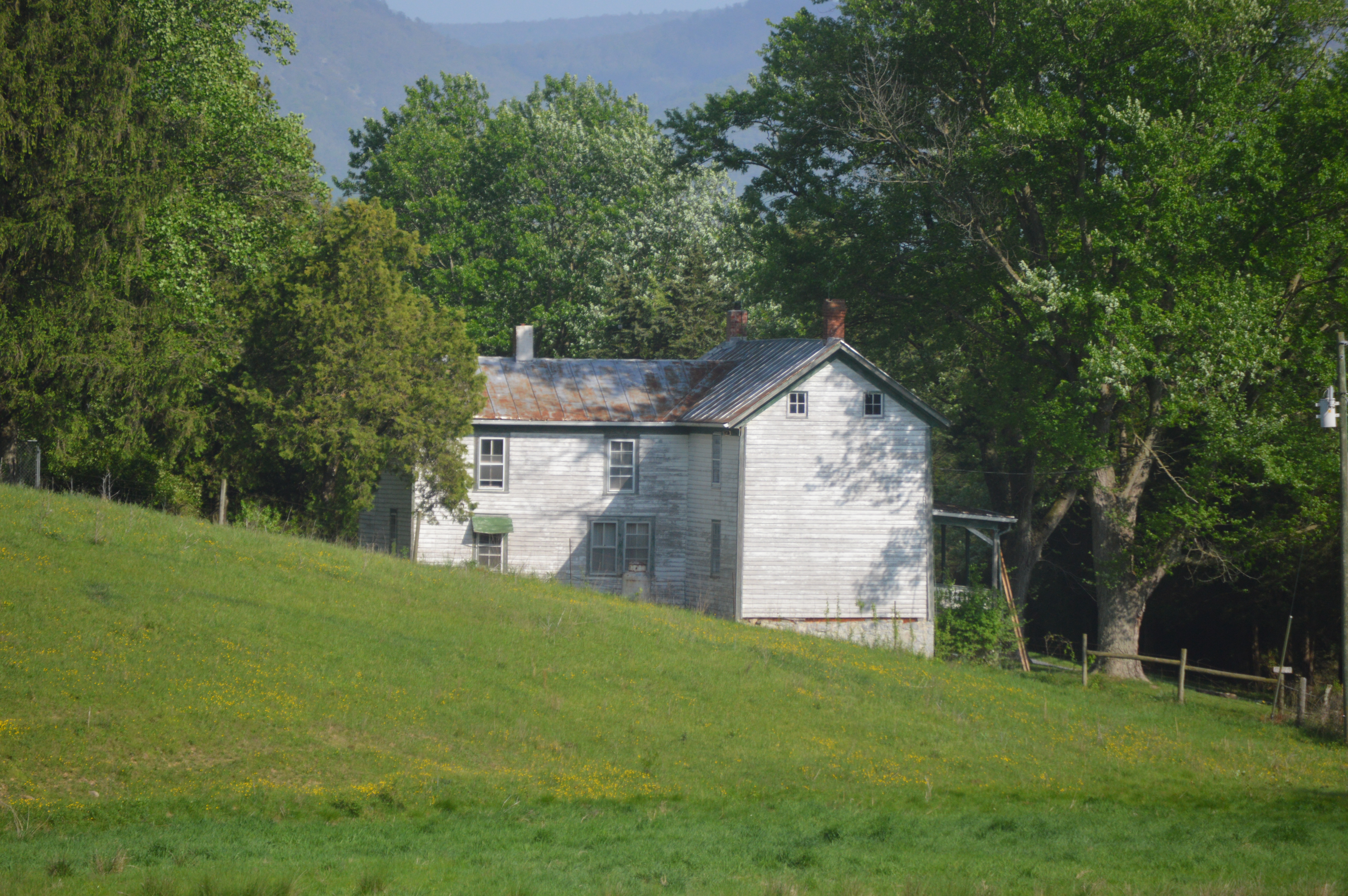 Distant view from Kratzler Road of Inglewood, located northeast of Timberville in Rockingham County, Virginia, United States. Built in 1851, it is listed on the National Register of Historic Places.